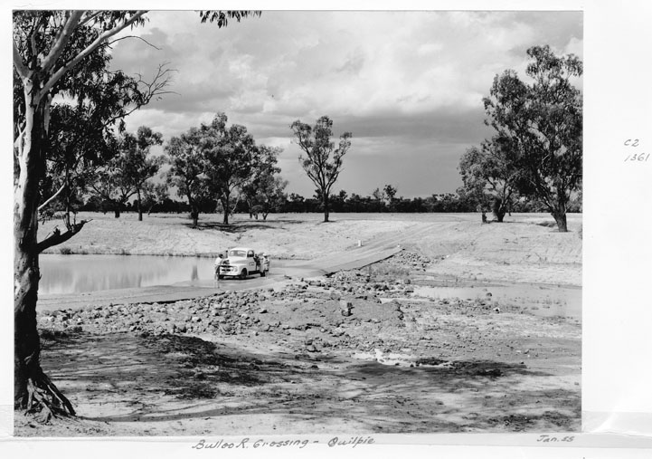 Bulloo River crossing, Quilpie.